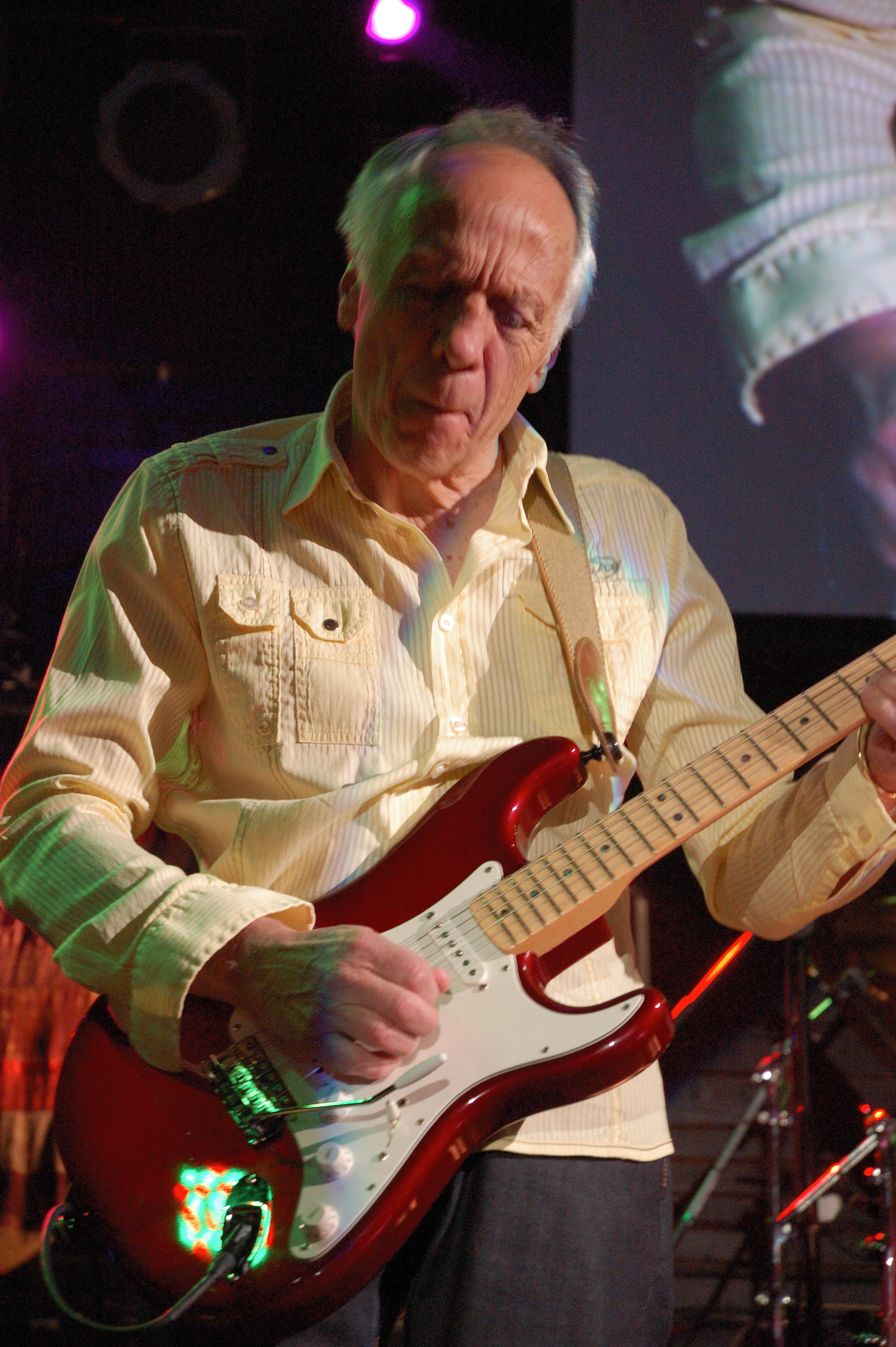 Robin Trower Oct 19th Culture Room 2009